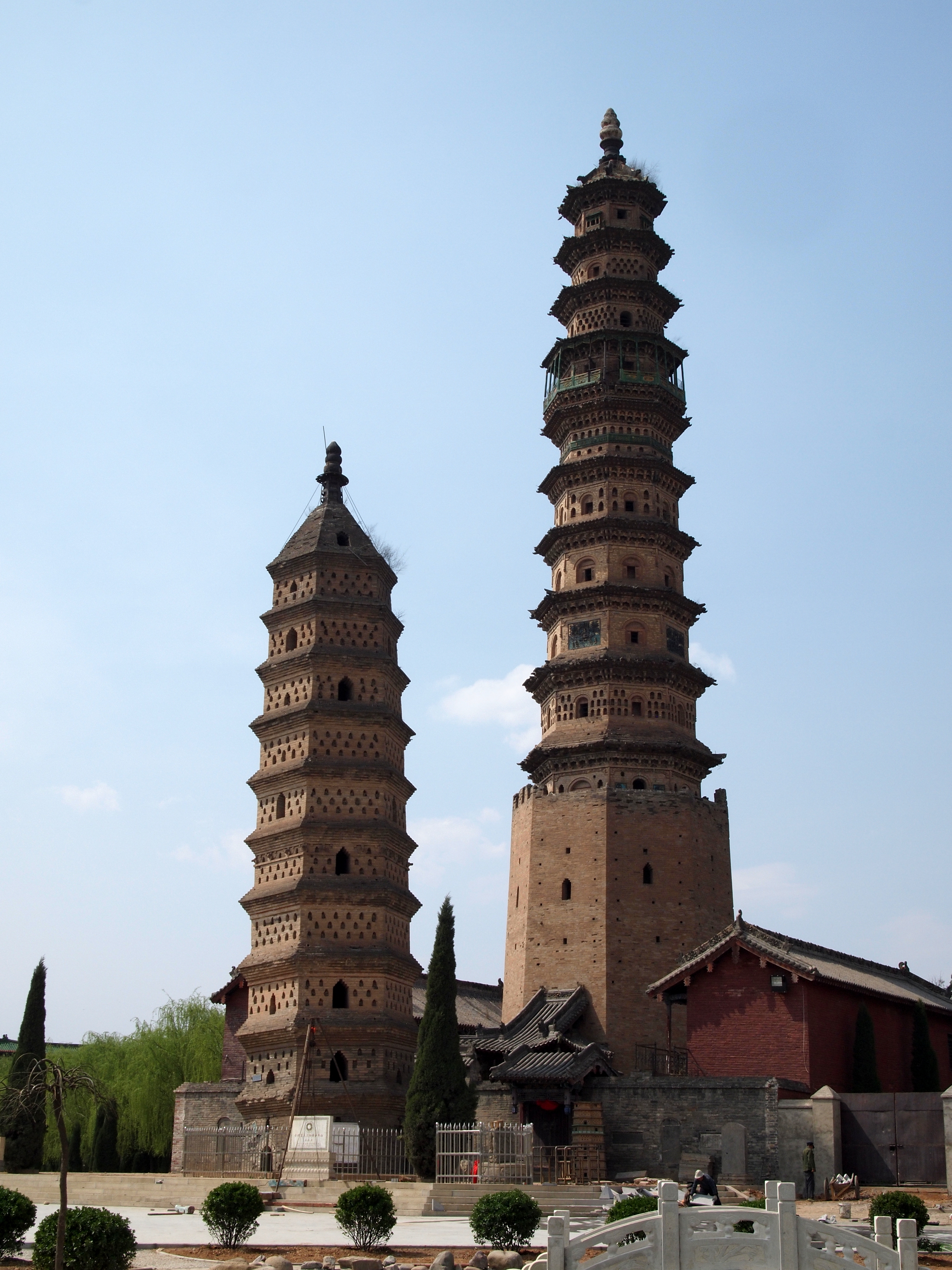 Haihui Temple (海會寺), Yangcheng, Shanxi